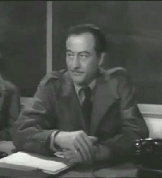 John Emery in the trailer for Rocketship X-M (cropped screenshot)